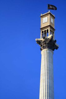 An image of Nelson's Column 'under the sharia' created by the group Islam4UK